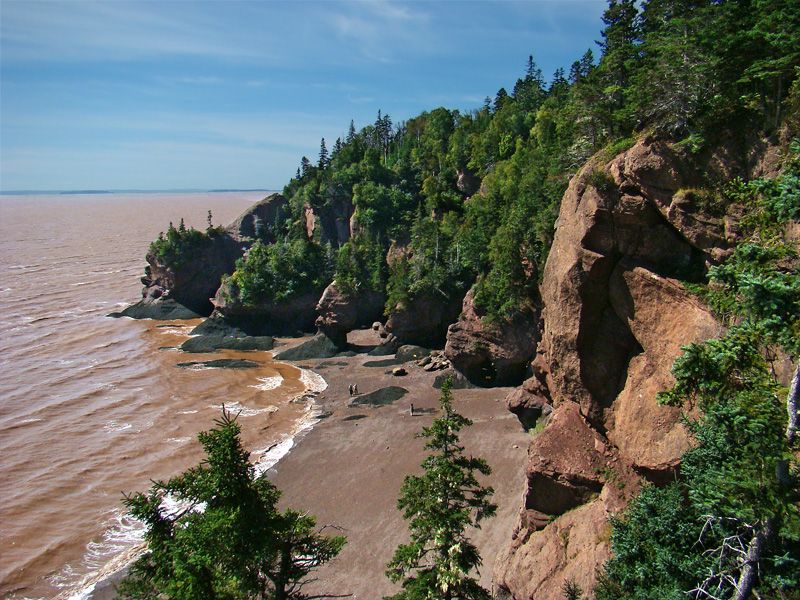 Hopewell Rocks, Bay of Fundy, New Brunswick, Canada. Big Cove at low tide.